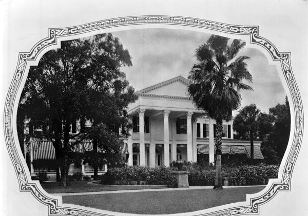 Kirkside was Henry Flagler's home in St. Augustine. It was torn down in the 1950s by his great-nephew Lawrence Lewis, Jr.